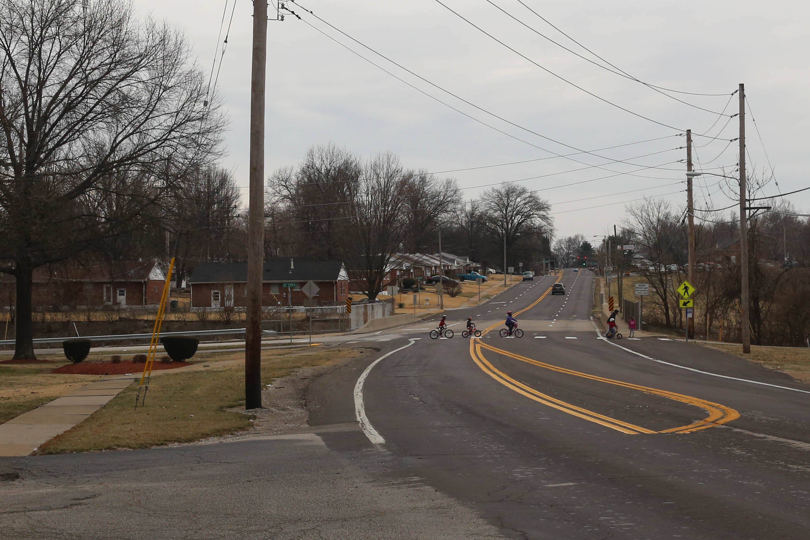 Complete Streets